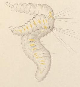 Larva of Magelona papillicornis J.F.T. Müller, 1858, A monograph of the British marine annelids, 1915, XCIII